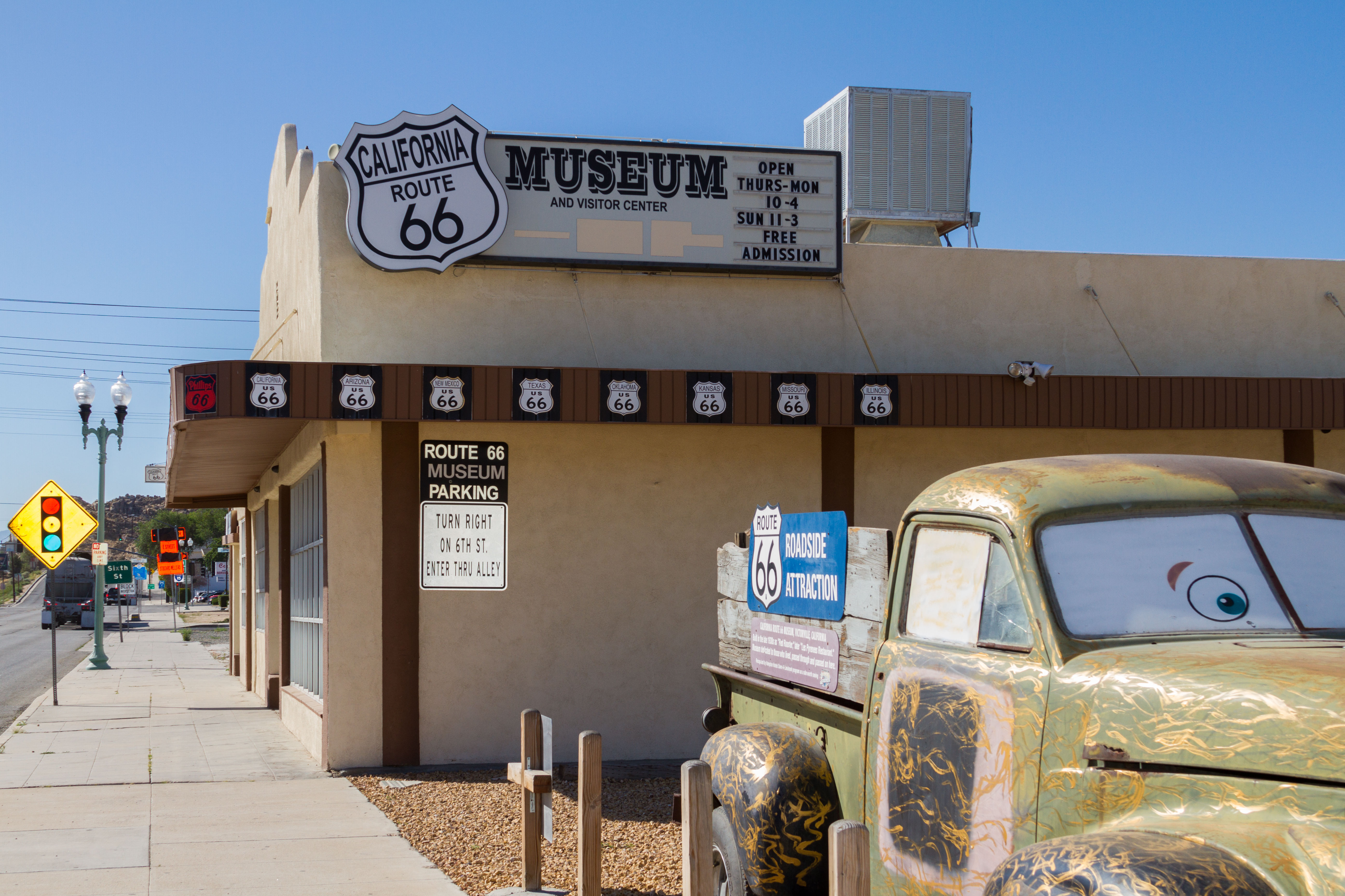 The California Route 66 Museum is located at 16825 South D Street in the city of Victorville, California. The California Route 66 Museum is devoted to the representation of U.S. Highway 66 in both historic and contemporary exhibition. The museum intends to continually promote, preserve, and educate the public throughout the world bringing relative weight to the cultural influences; and impacting effects the Mother Road had on architecture, the arts, community development, and commerce; since its induction as a U.S. Highway in 1926.